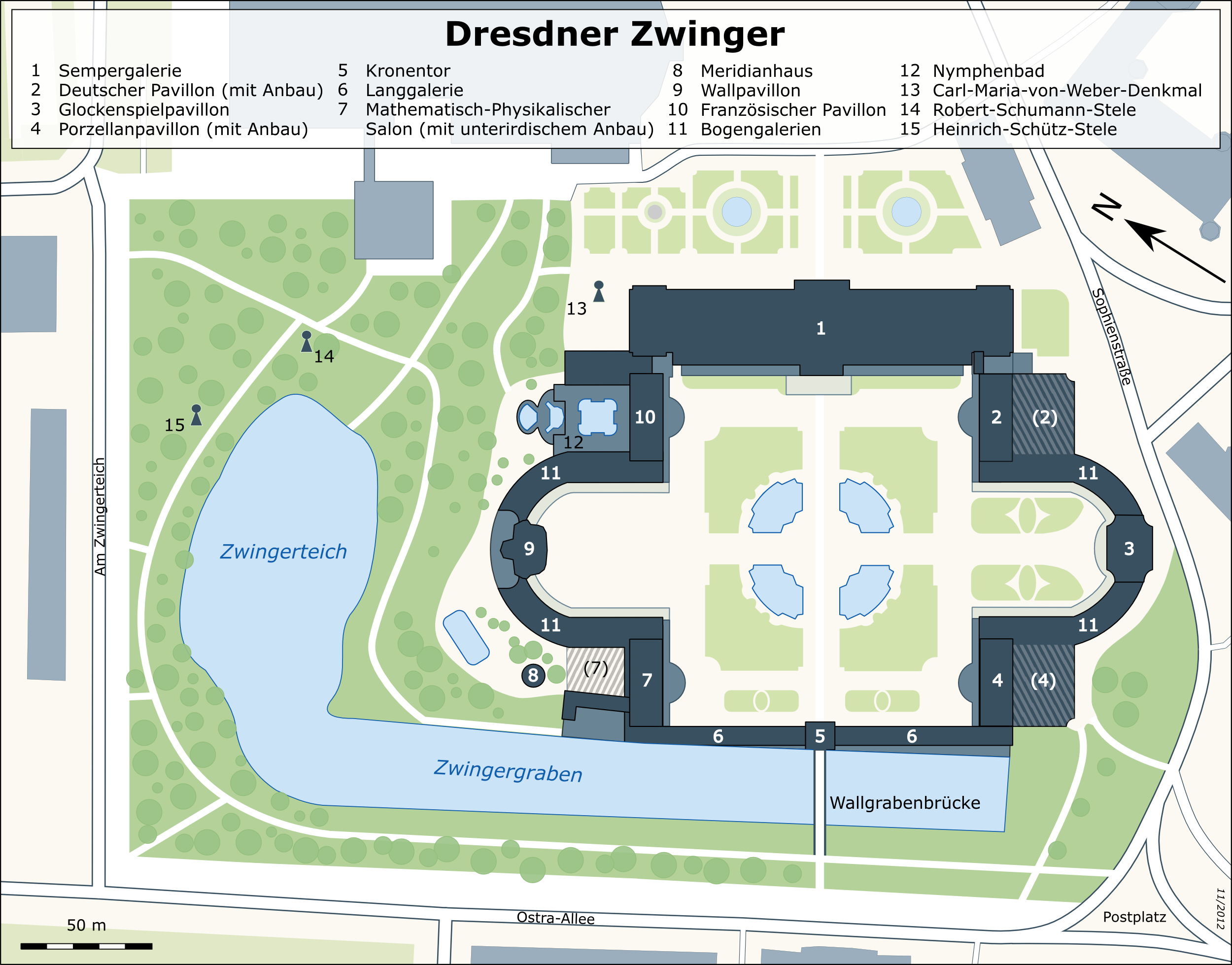 Karte des Zwingers in Dresden / Map of Zwinger, Dresden This map may be incomplete, and may contain errors. Don't rely solely on it for navigation.